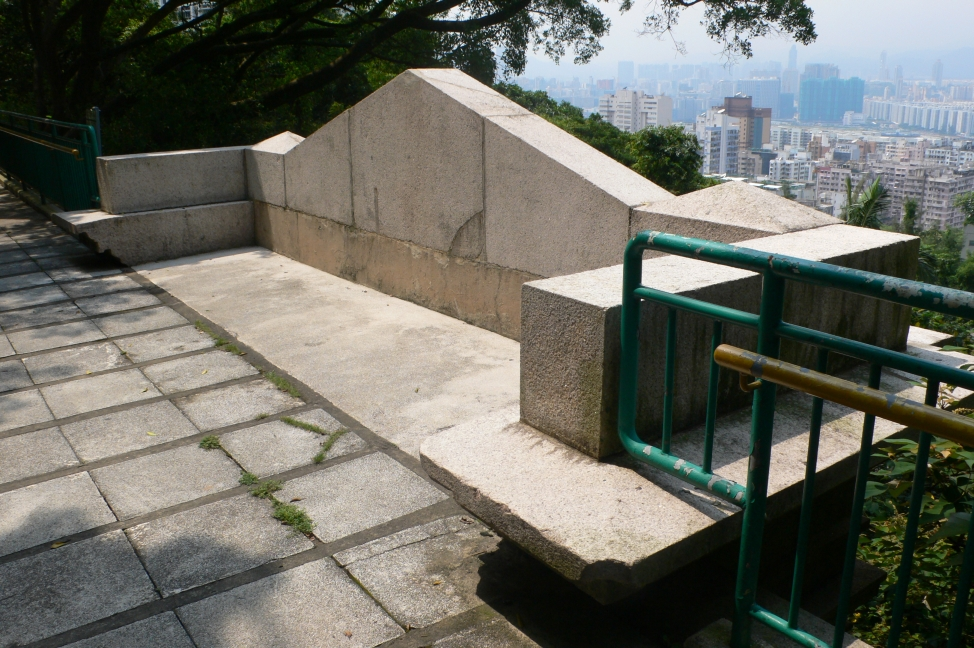 The back of the Remains of Water Gate of Braemar Hill Reservoir, Hong Kong